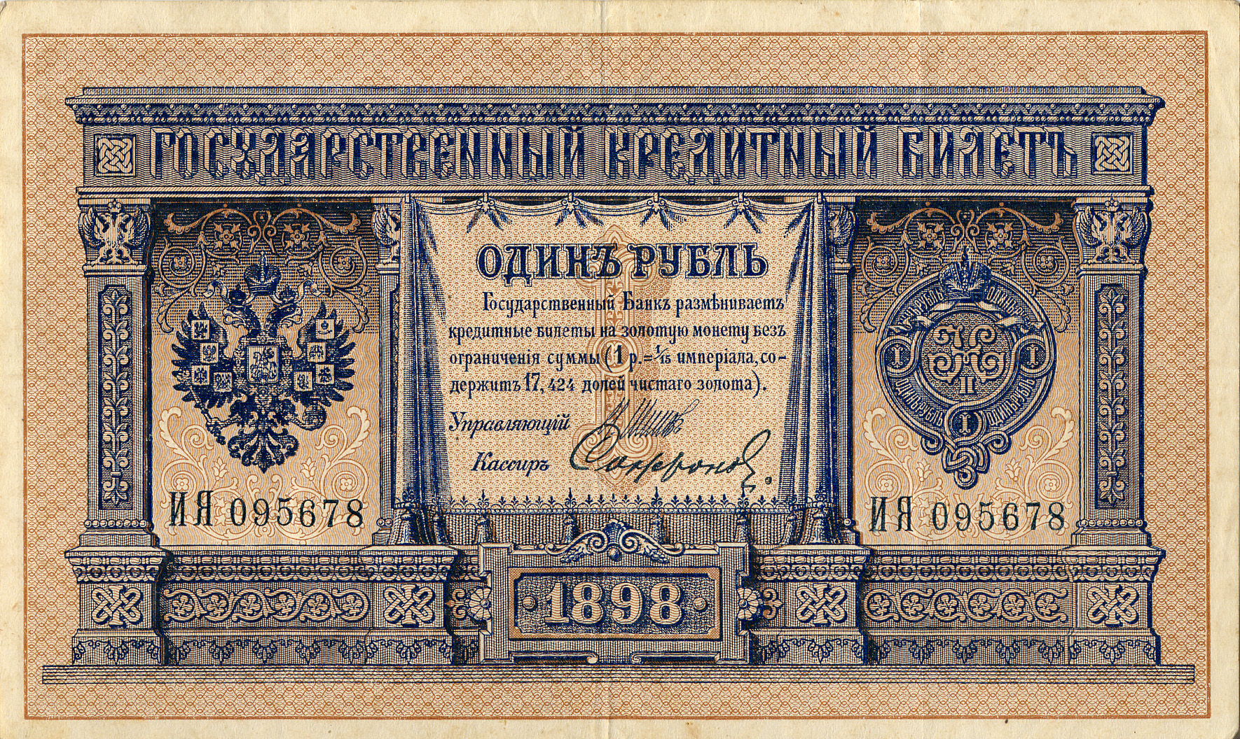 Russian Empire 1 ruble bill. Reverse